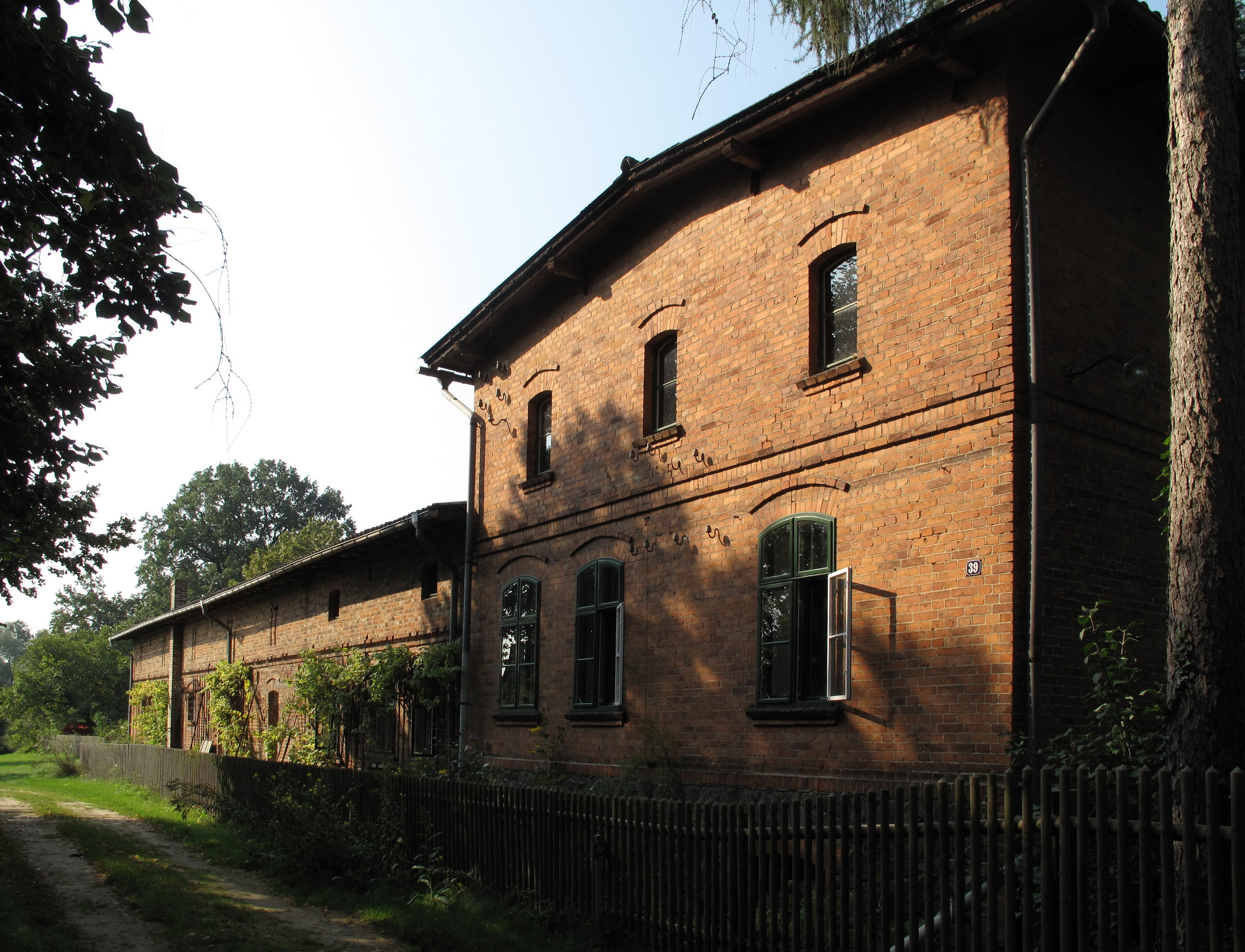 Listed former forestry „Alte Försterei Briescht“. Briescht is a part of the municipality Tauche in the District Oder-Spree, Brandenburg, Germany. Listed are: Forestry with forester's lodge, horse stable, two barns and earth cellar. The forestry was built around 1900. The operating was finished in 1990. Since 2009 privatized, the „Alte Försterei Briescht“ is a place for arts, culture and recreation, today.